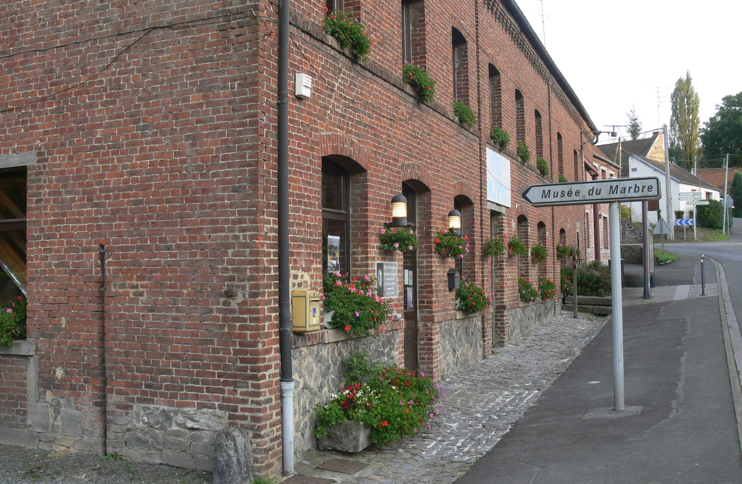 Marble Museum of Bellignies (Nord, Fr)